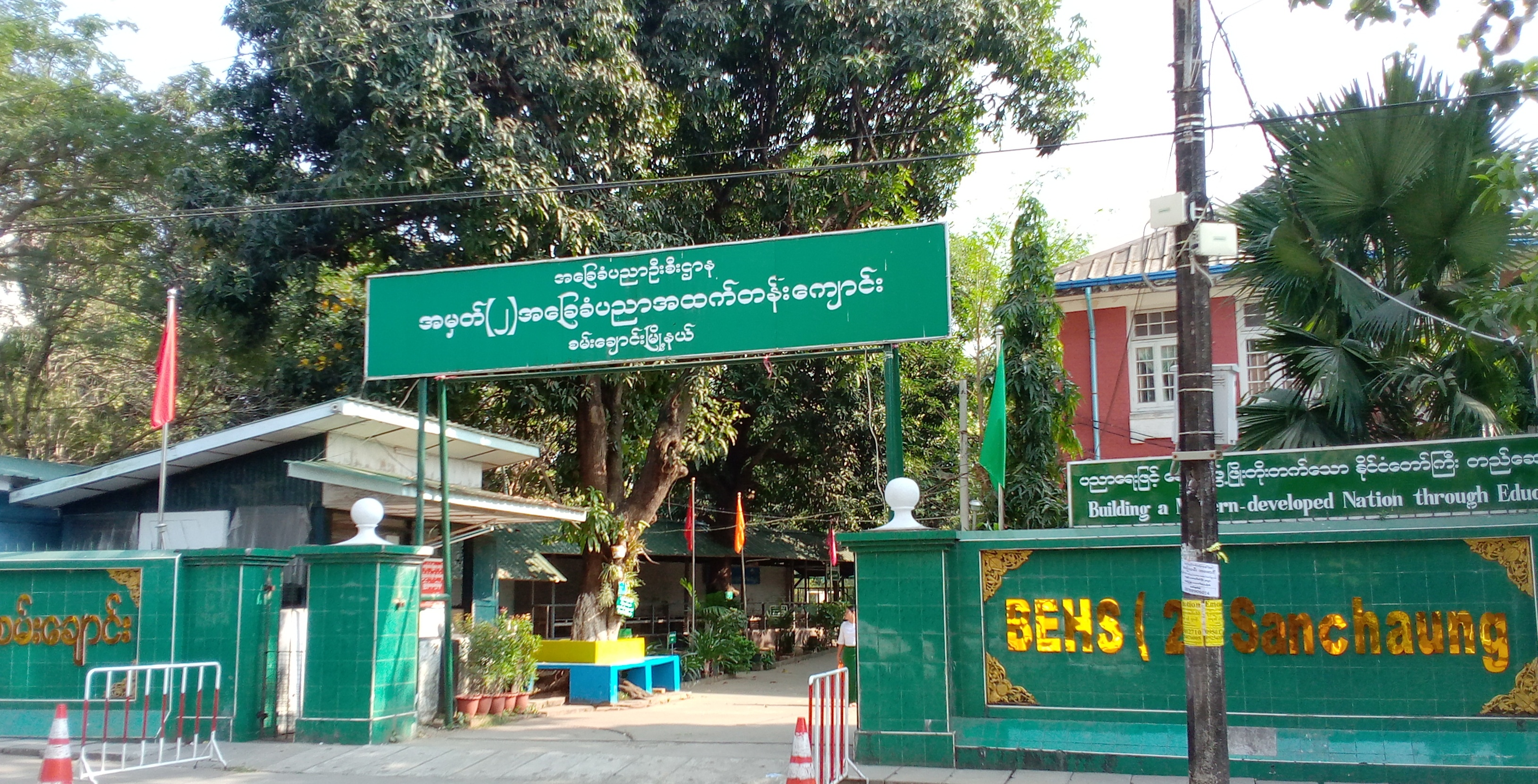 School entrance gate of Basic Education High School No. 2 Sanchaung (St. Philomena's High School), Yangon